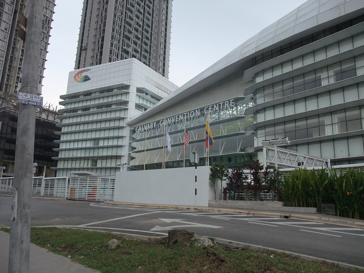 Calvary church in Bukit Jalil, Malaysia